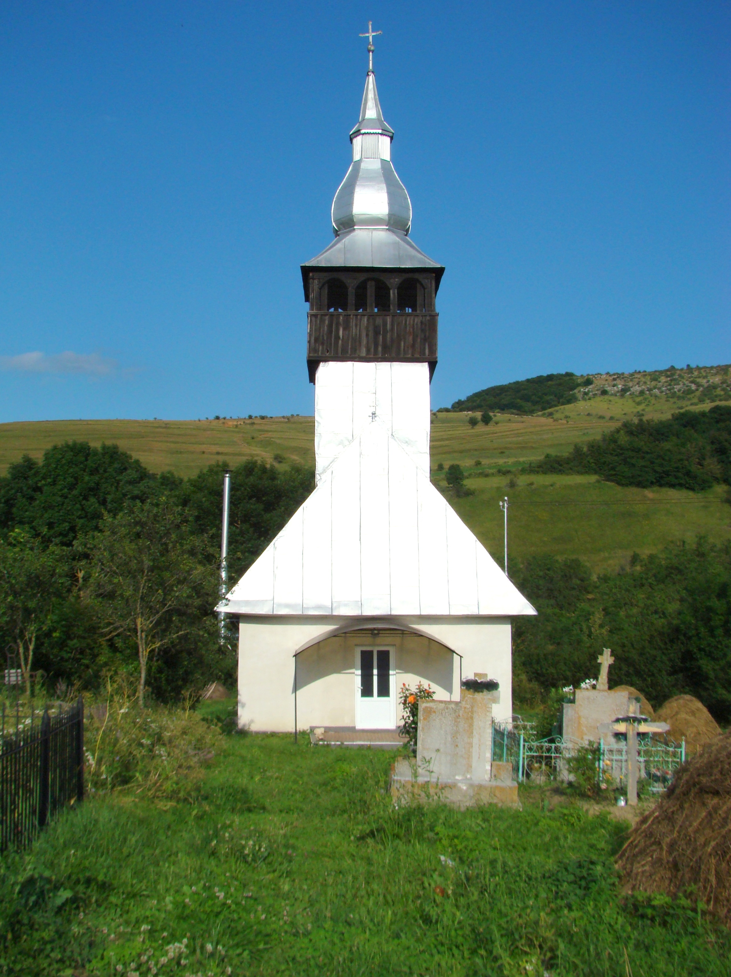 Wooden church in Petreștii de Mijloc, Cluj county, Romania